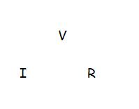 Ohm's law triangle